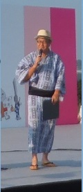 Spacy Yagi in 2014-7-26